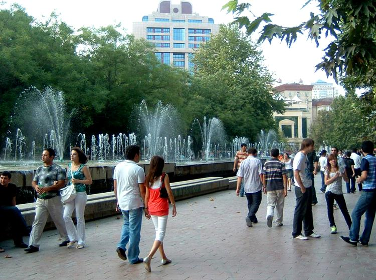 Azerbaijanis in downtown Baku, Azerbaijan.